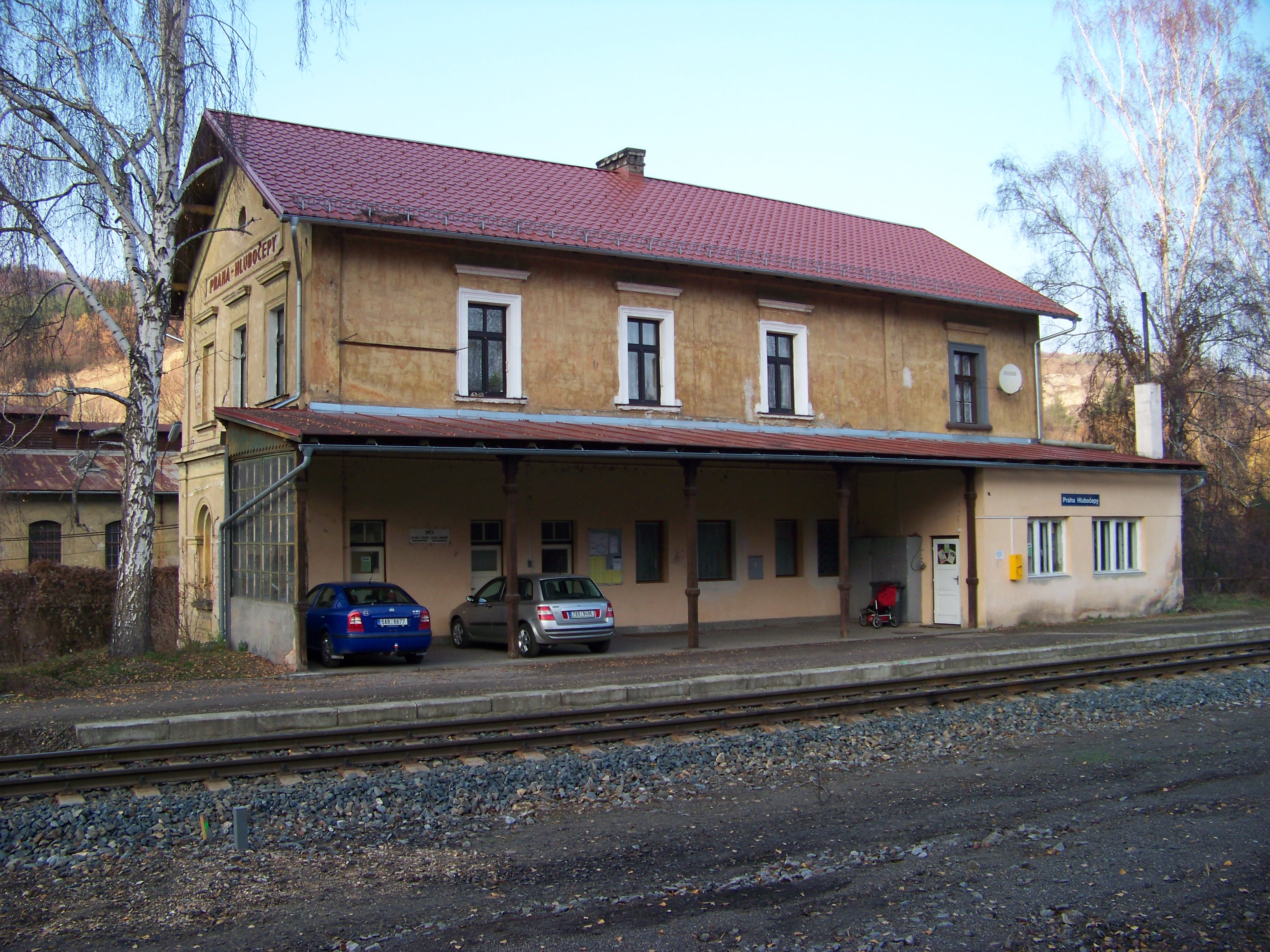 Prague-Hlubočepy, the Czech Republic. Hlubočepská 80/57, train station Praha-Hlubočepy.